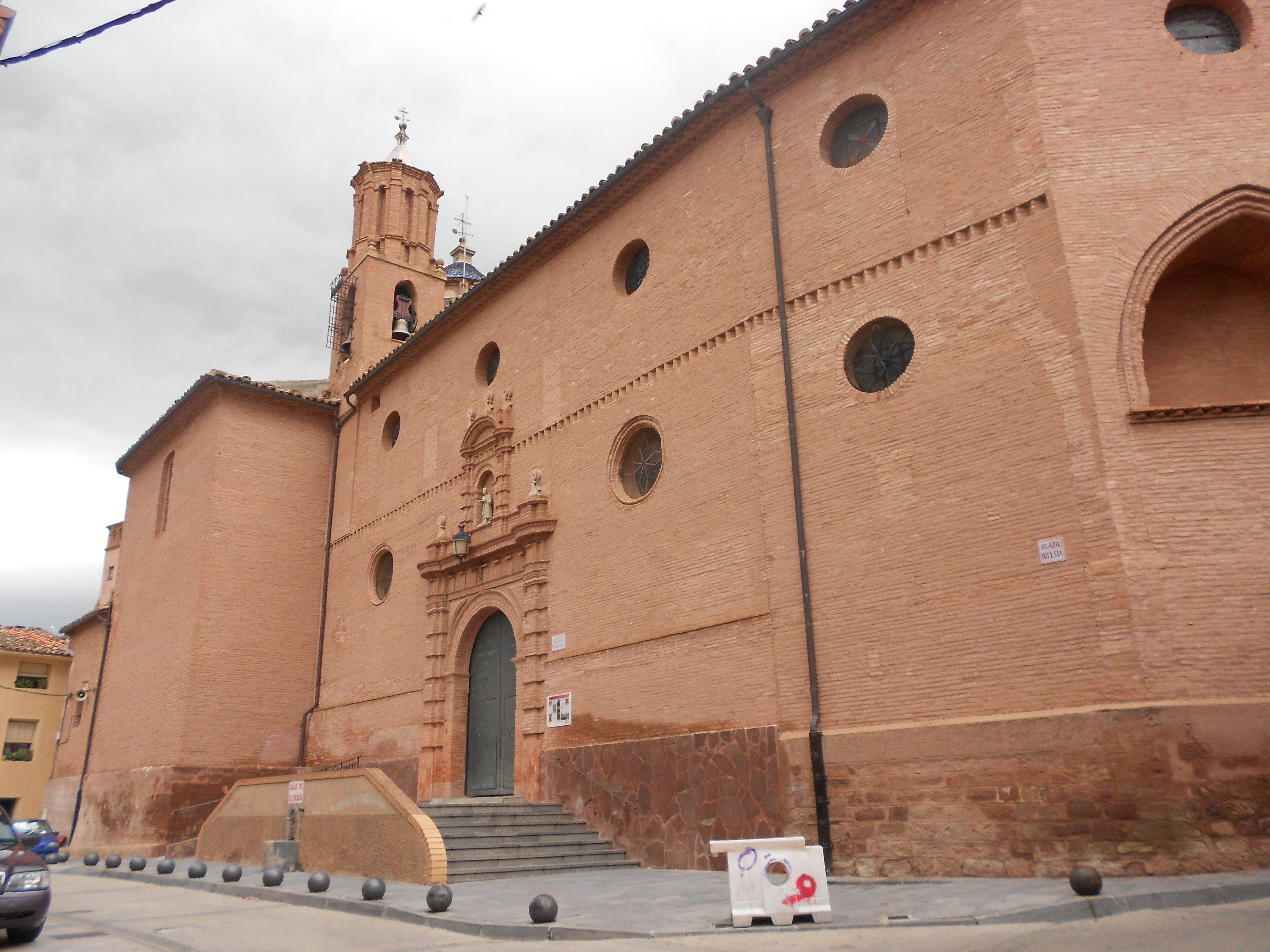 San Juan Bautista's Church (Illueca, Spain)